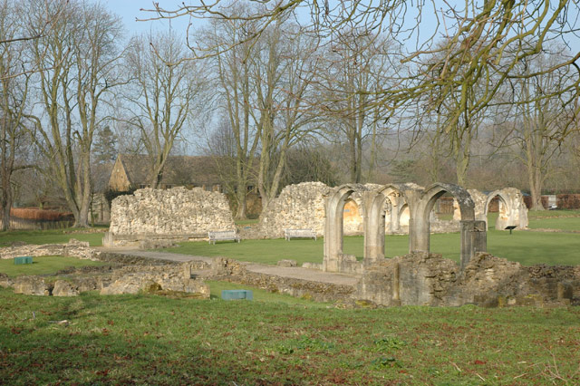 The ruins of Hailes Abbey in Winchcombe, Gloucestershire, England.